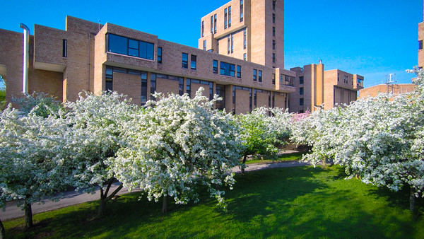 UB North Campus Ellicott Complex Residence Halls